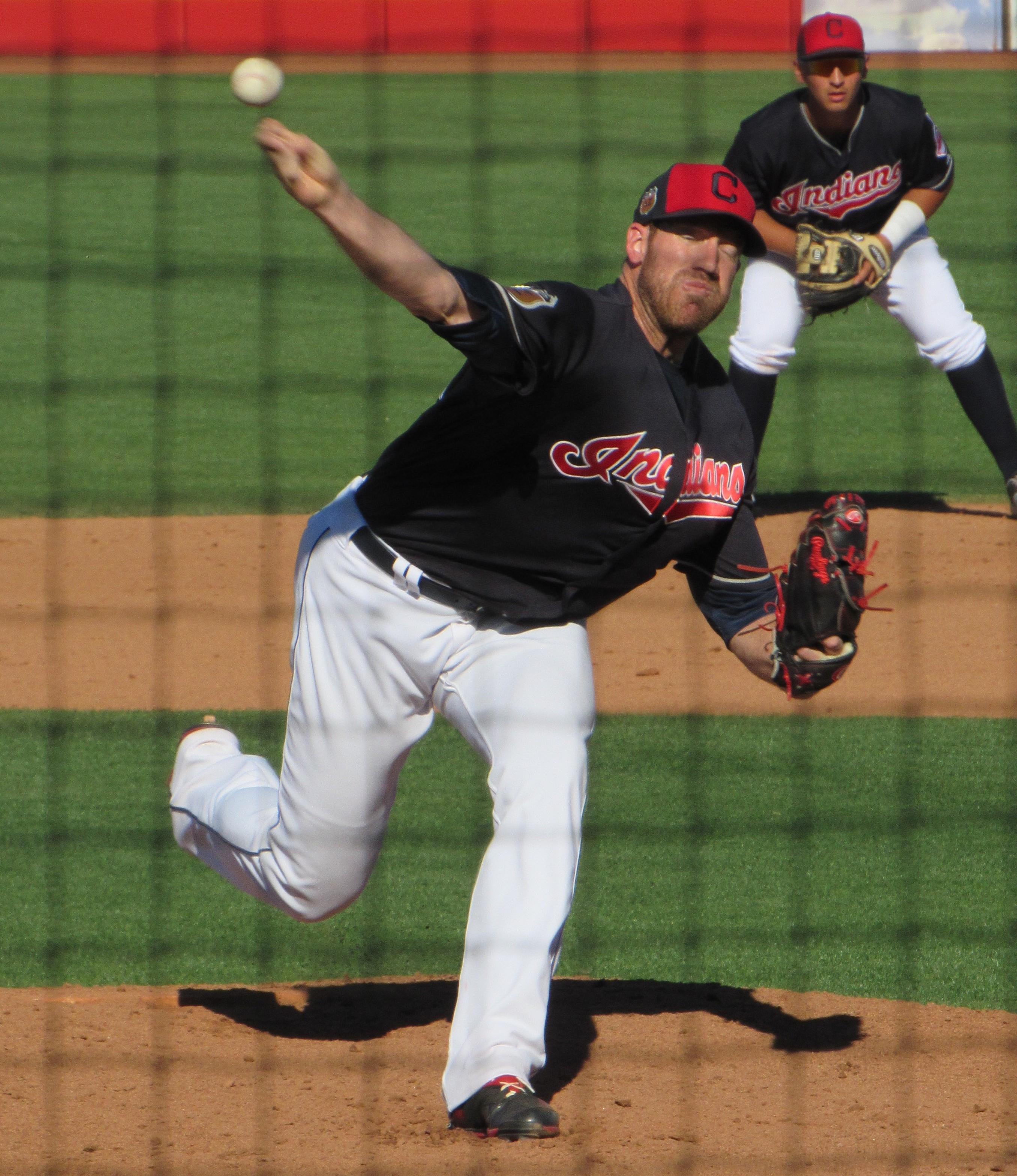 McAllister pitching for the Cleveland Indians during Spring Training 2017